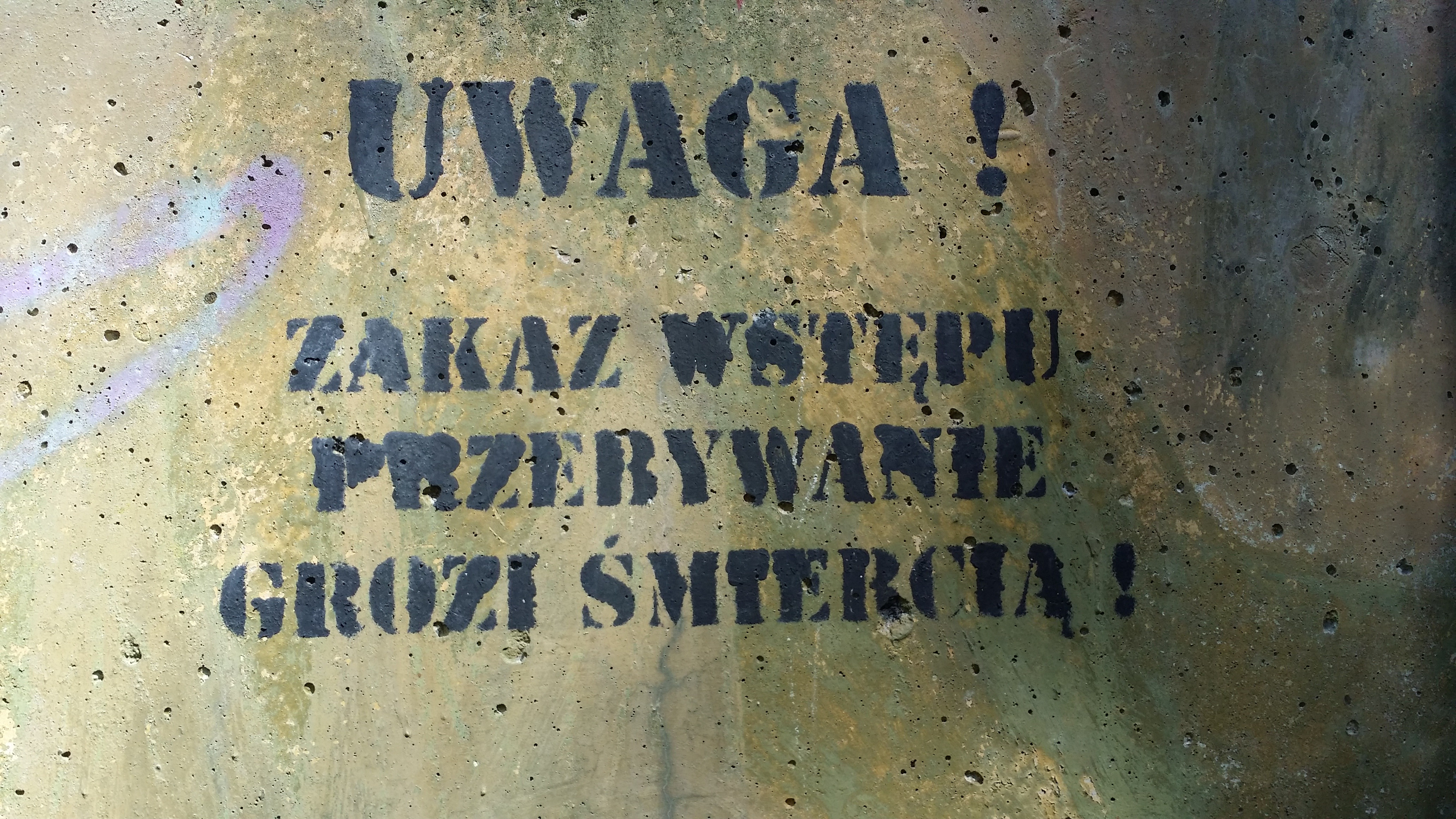 Warning sign in the shelter to store Soviet nuclear weapons in Kłomino, Poland